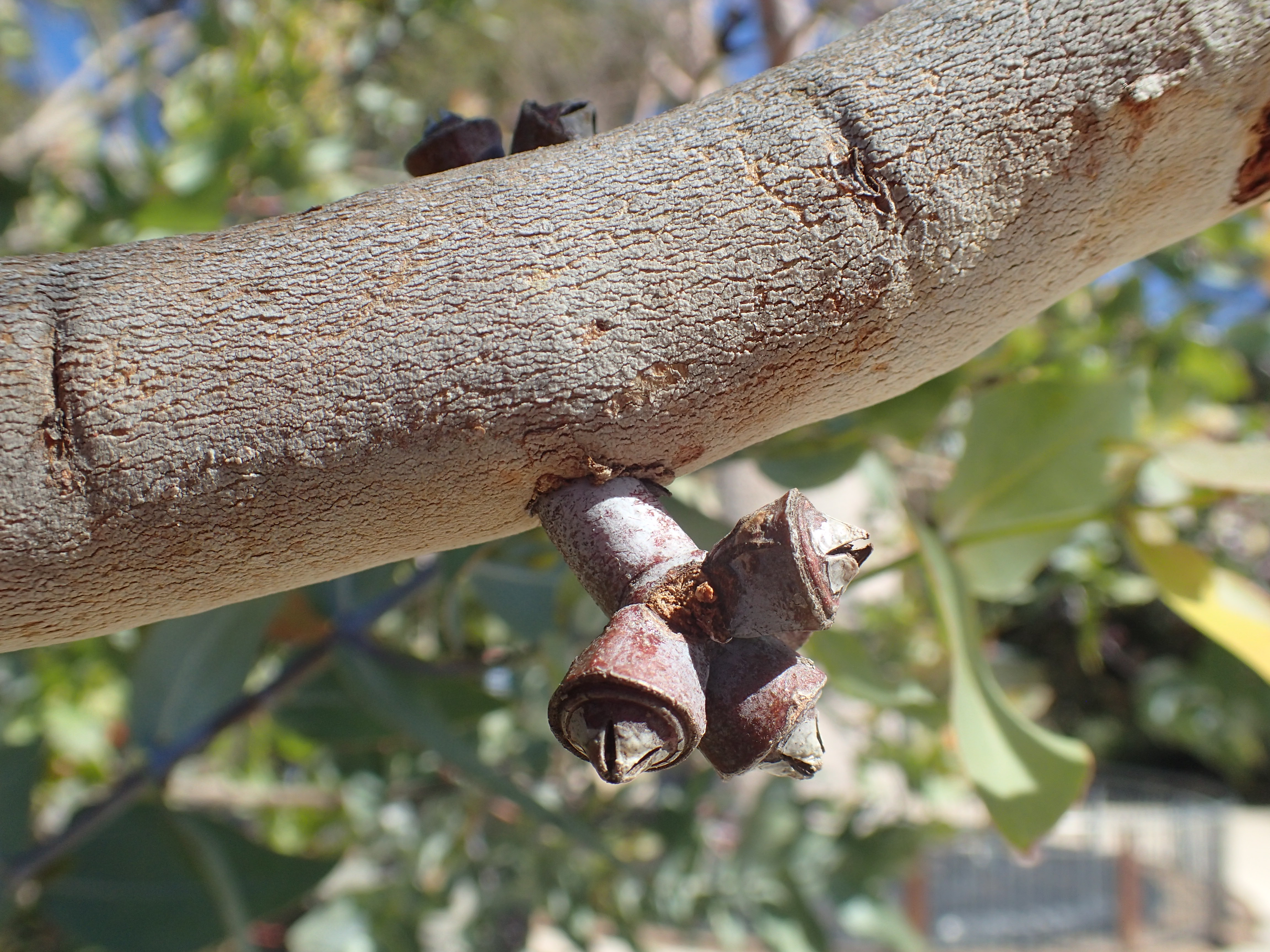 Fruit of Eucalyptus mooreana in Kings Park, Perth